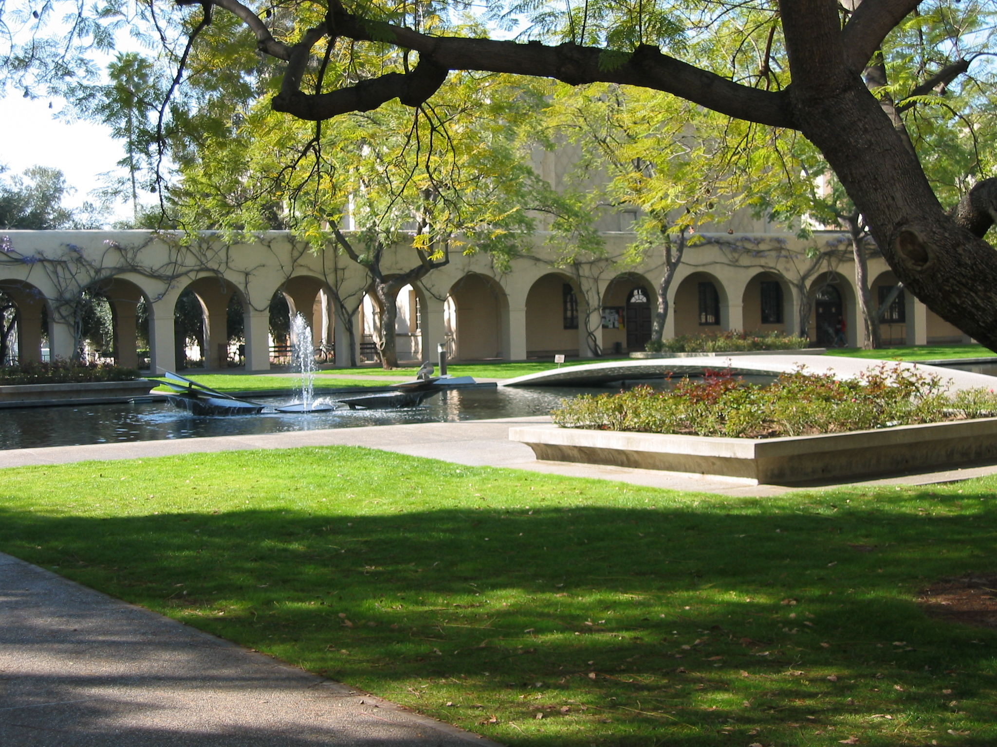 Fountain at Cal Tech